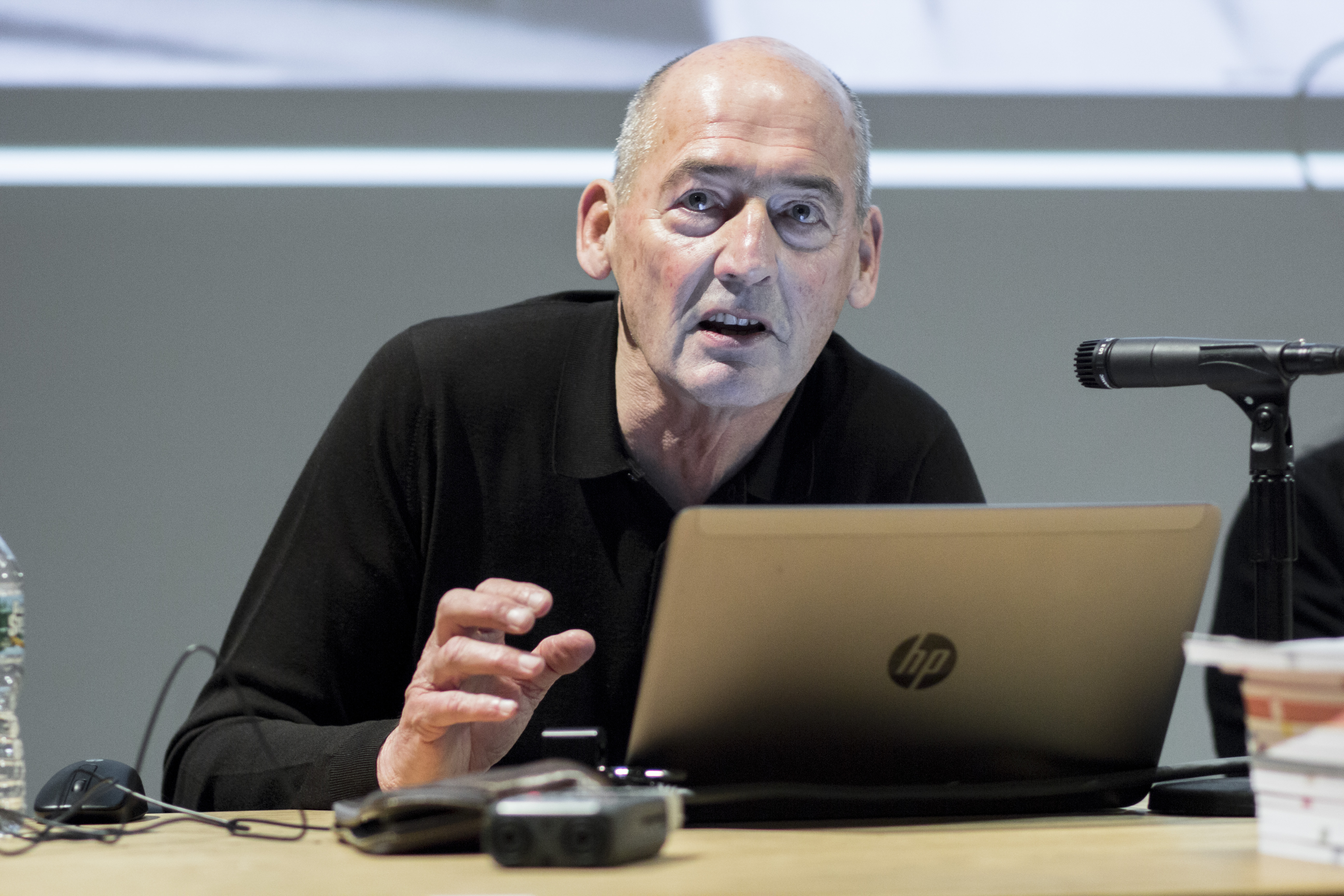 Architect Rem Koolhaas and and graphic designer Irma Boom have a long history of collaboration. In their first joint lecture at Columbia GSAPP, the celebrated designers present Fundamentals, the 14th International Architecture Exhibition of the Venice Biennale—twelve "essential elements" of architecture, ranging from Door and Floor to Toilet and Wall—and how this was graphically conveyed in the Central Pavilion of the Giardini and related series of books. Response by Amale Andraos and Michael Rock.